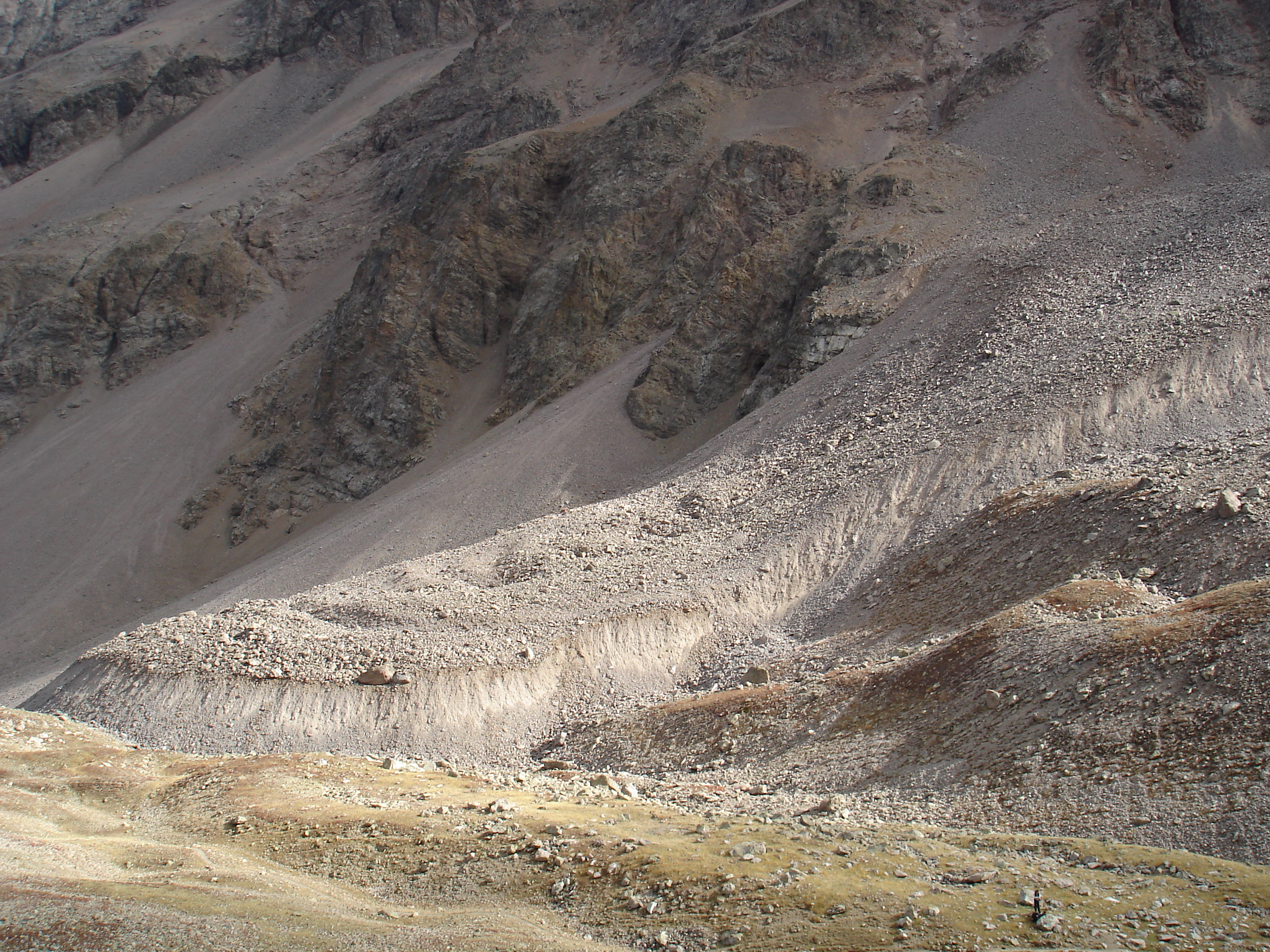 The velocity of the Laurichard rock glacier, French Alps, is annually surveyed since 1979.